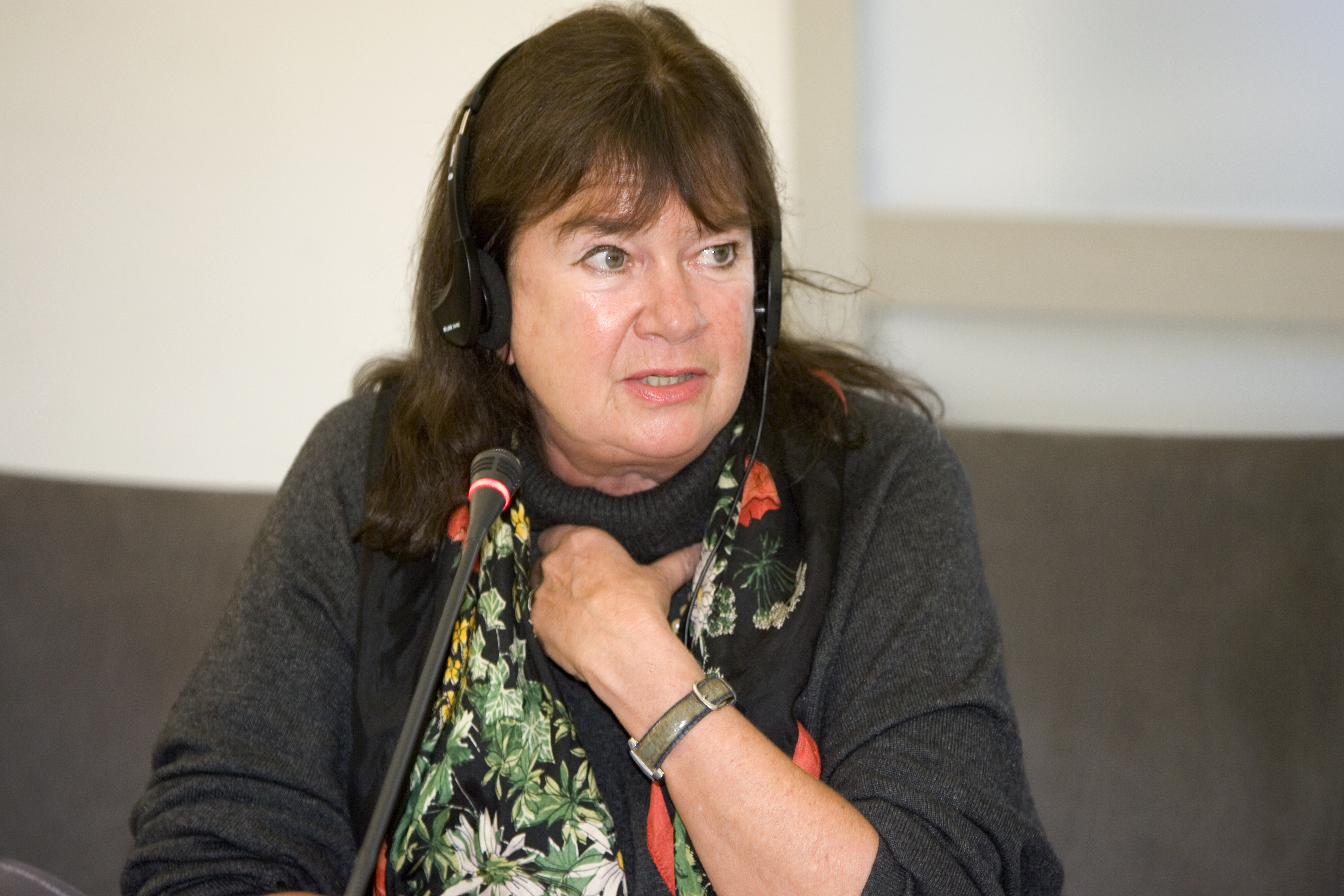 Depicted person: Helga Zepp-LaRouche – German journalist and political activist